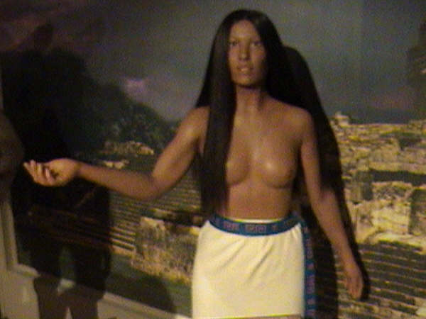 La Malinche